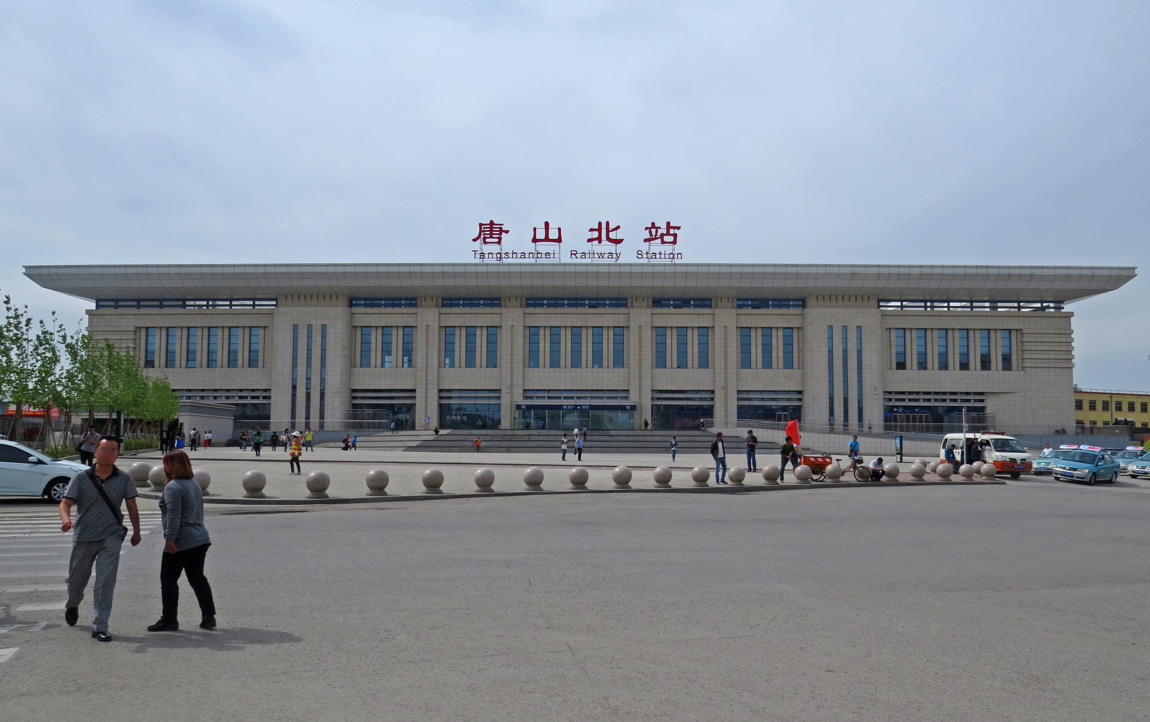 This station is actually in Fengrun, a remote district in Tangshan.